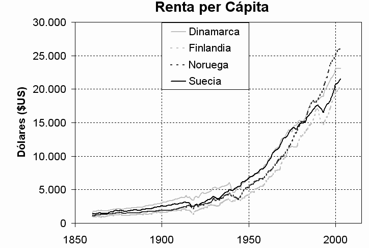 Evolutio of GDP per capita (nominal value) in Denmark, Finland, Norway and Sweden. Source: World Population, GDP and Per Capita GDP, 1-2003 AD